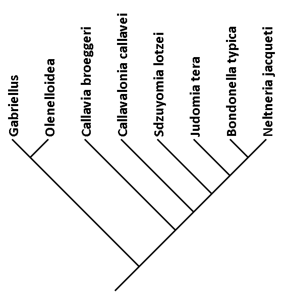 Cladogram of the relationships between the genera in the Judomioidea superfamily and the Olenelloidea. Based on Lieberman, 2001